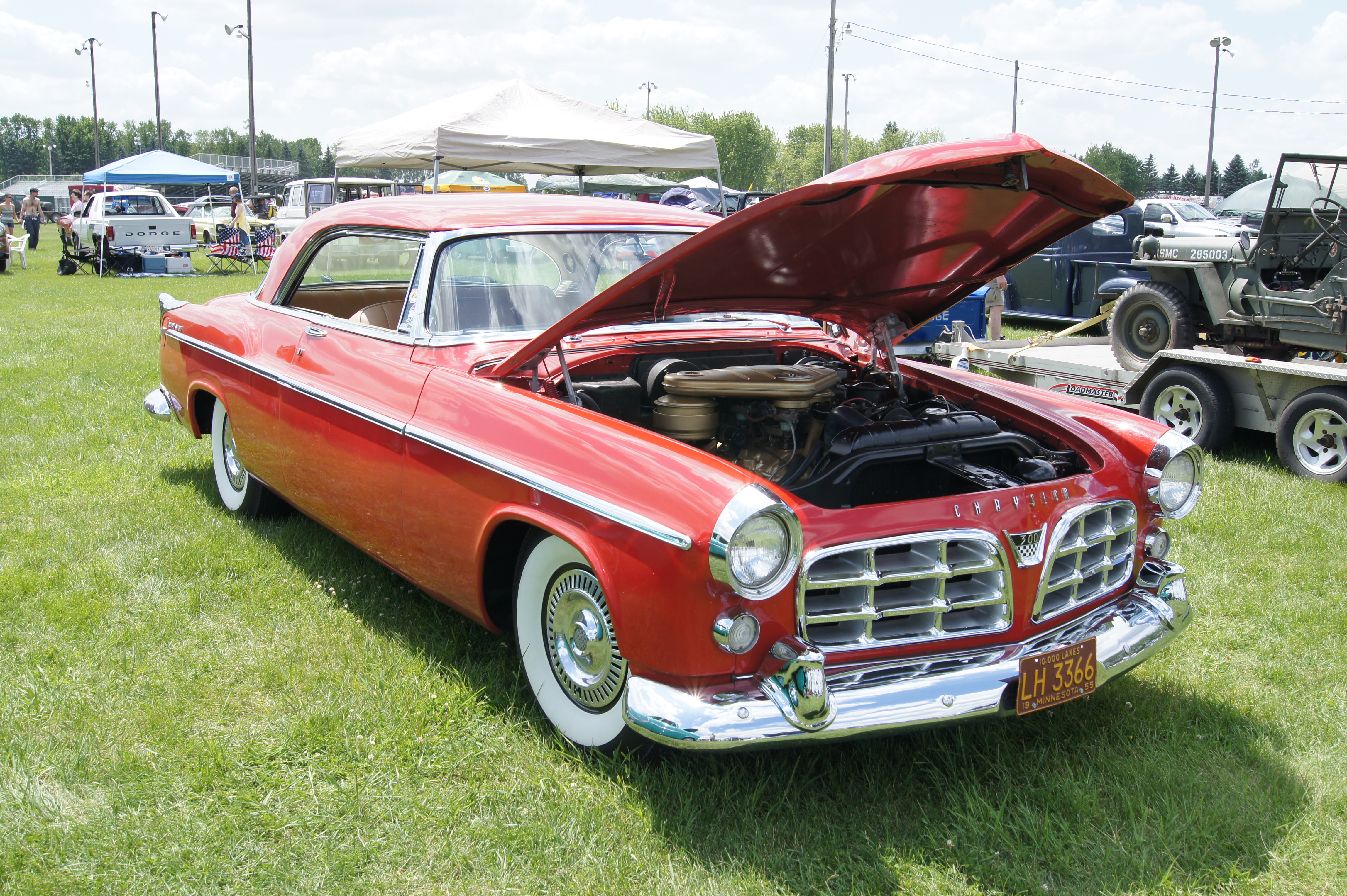 28th Annual Midwest Mopars in the Park June 2, 2012